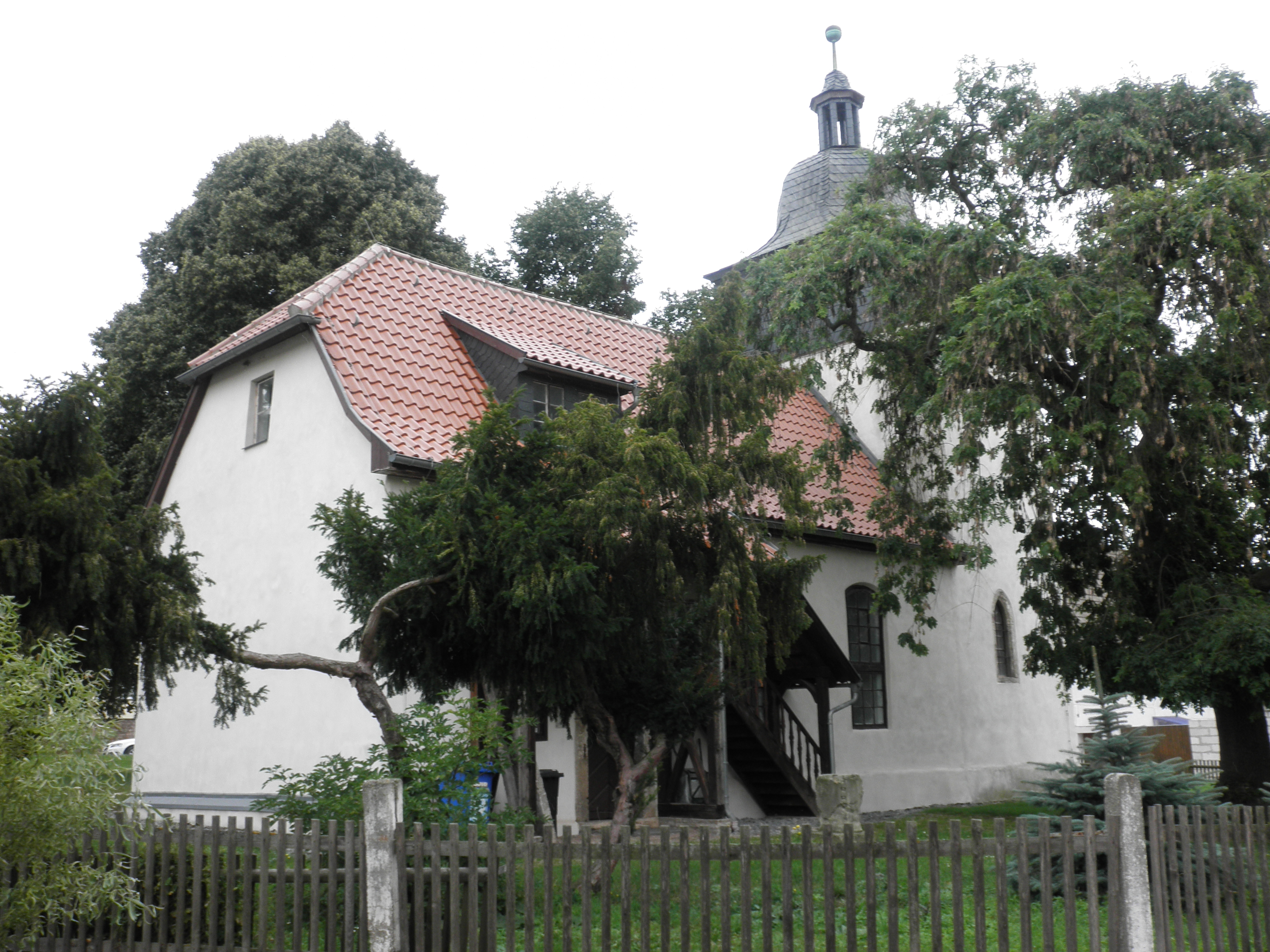 Church in Blankenburg (Thüringen) in Thuringia